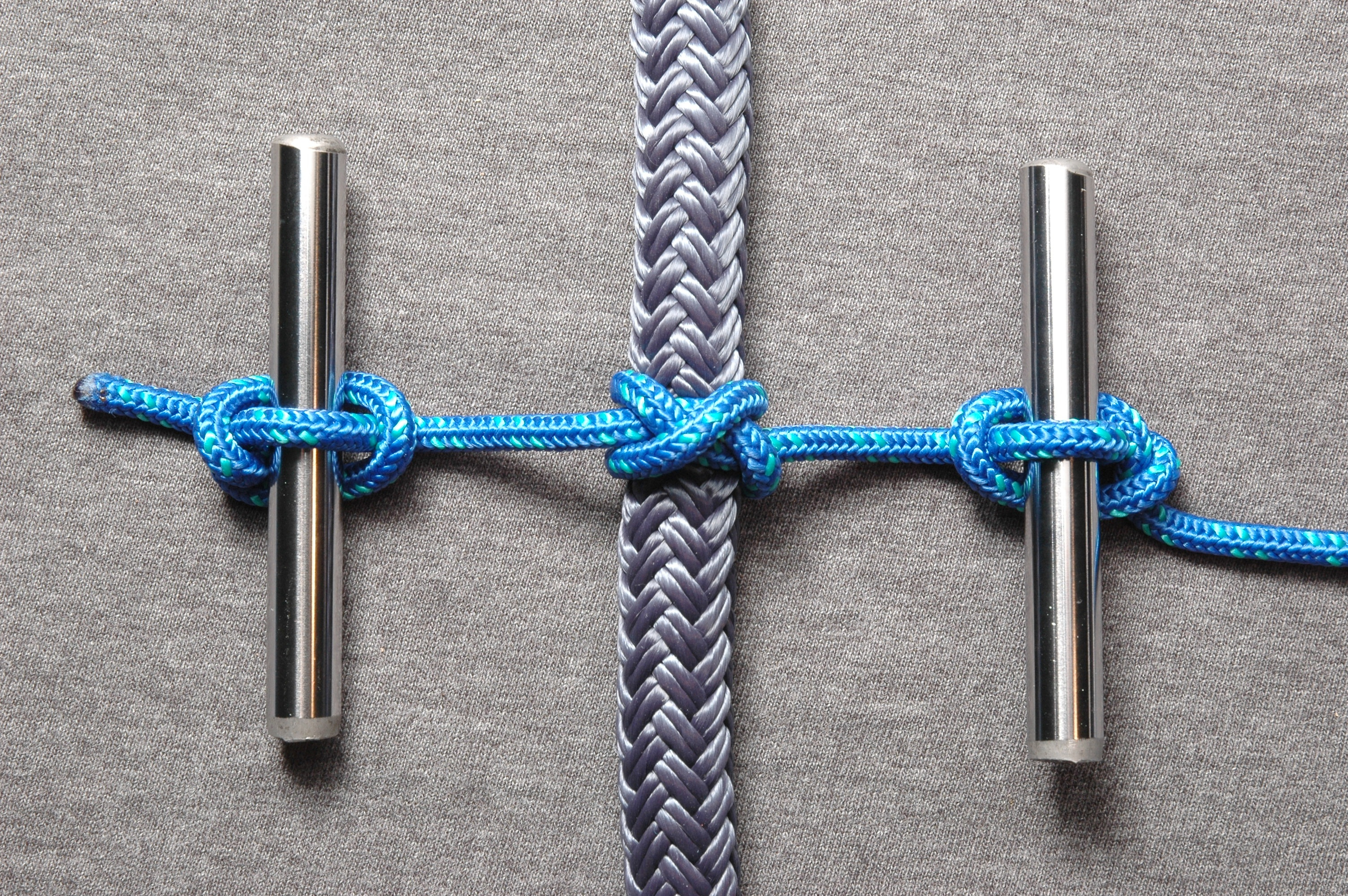 A Constrictor knot (ABOK #1249) prepared for tightening with Marlinespike hitches (ABOK #2030) formed around metal dowels